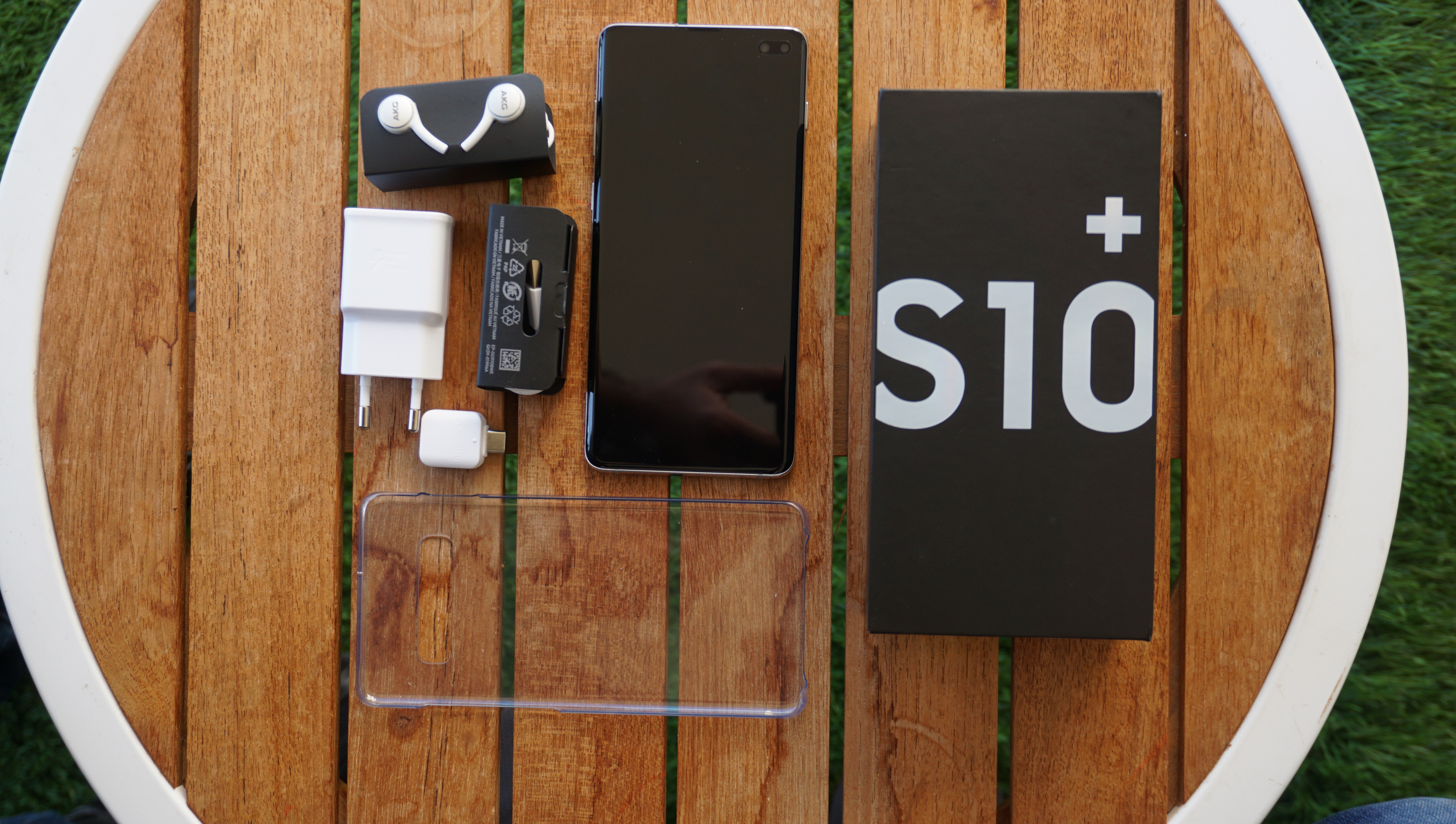 Galaxy S10 box with all of it's accessories